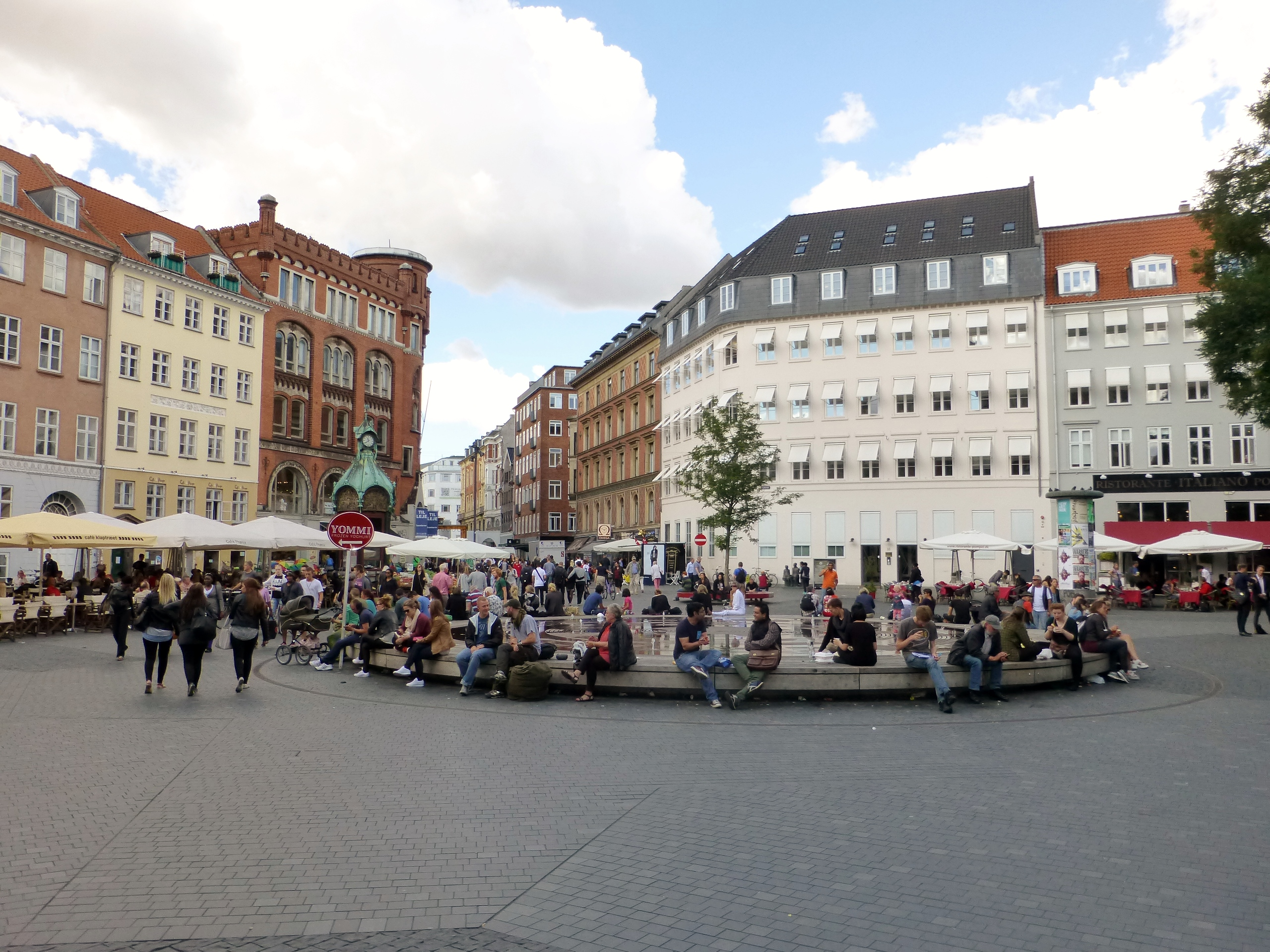 The square Kultorvet in Indre By in Copenhagen.